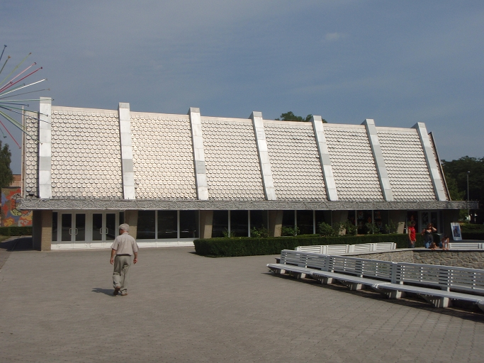 Spa buvet in Myrgorod resort - Ukraine, Poltava Region